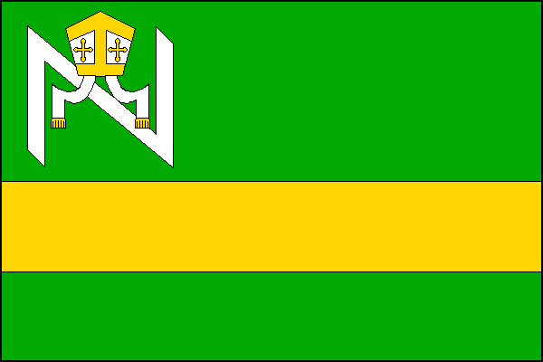 Municipal flag of Nevojice village, Vyškov District, Czech Republic.